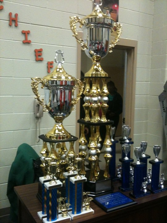 The Marchin' Chief's Awards and Trophies from winning the Grand Championship at the Sound of Silver Invitational in Blackshear, GA.